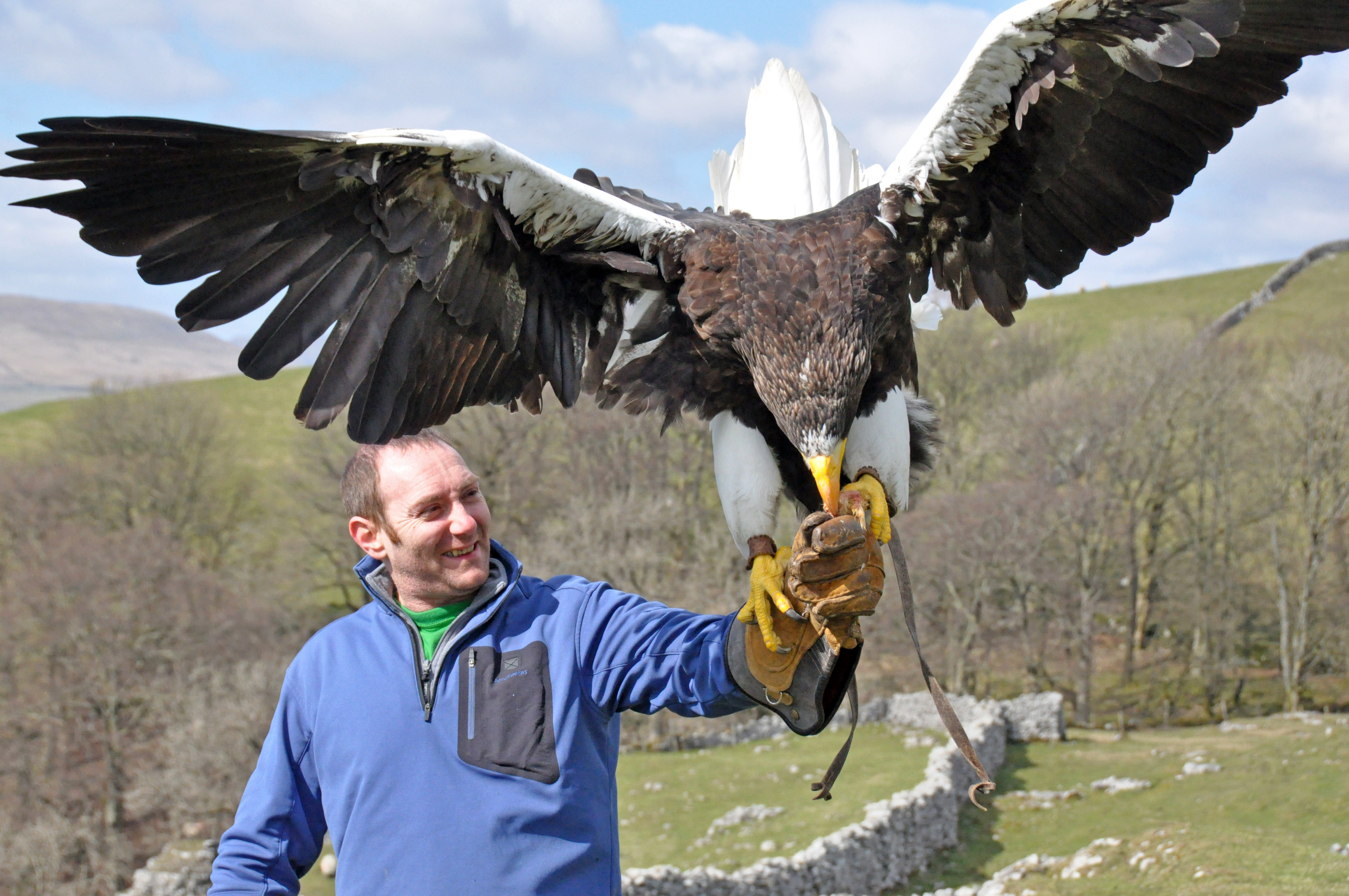 A falconer holding a Steller's Sea Eagle in the Yorkshire Dales, England.